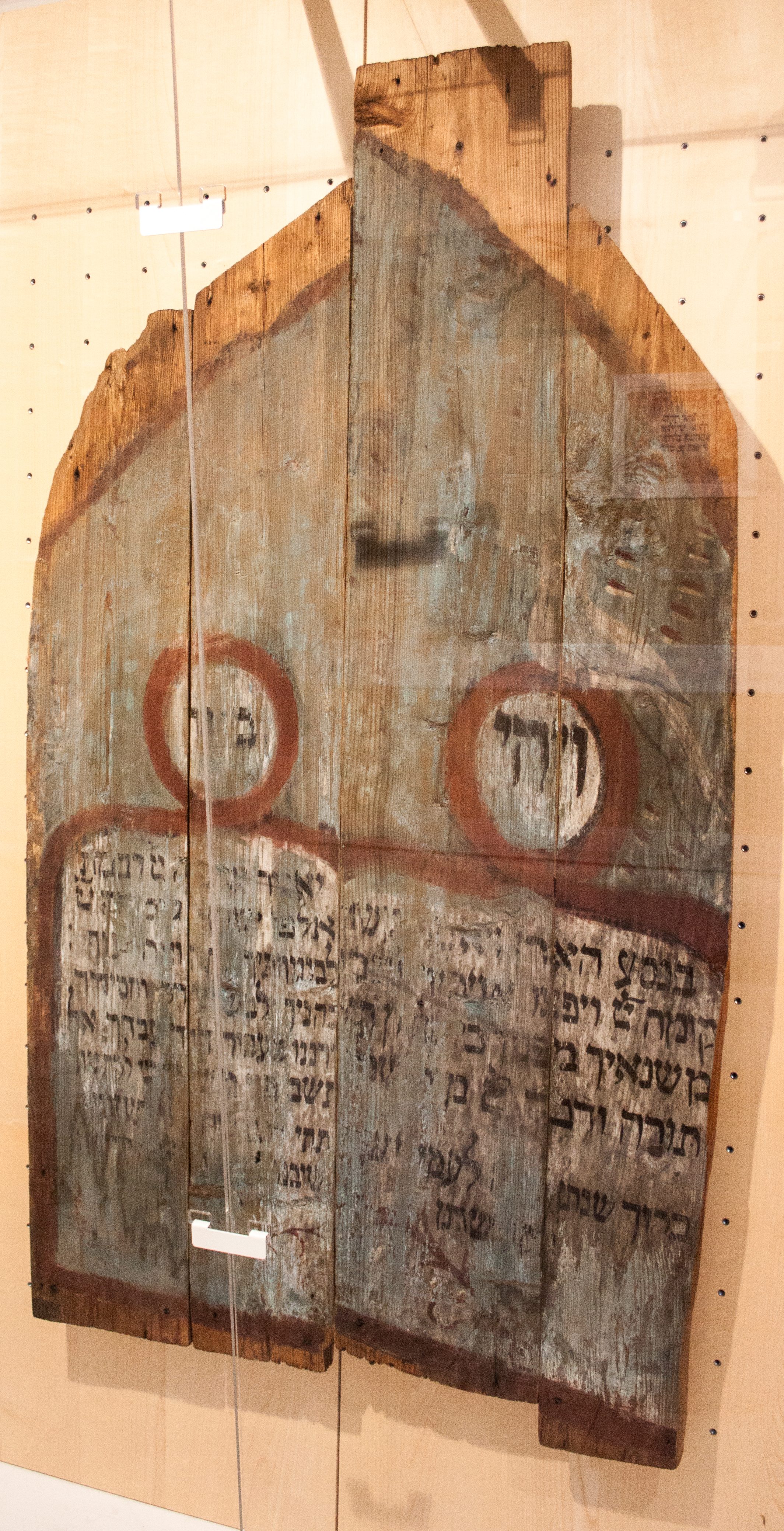 Wooden_panels_from_the_synagogue_in_Náznánfalva, 1747